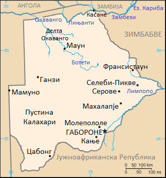 Map of Botswana in Macedonian.